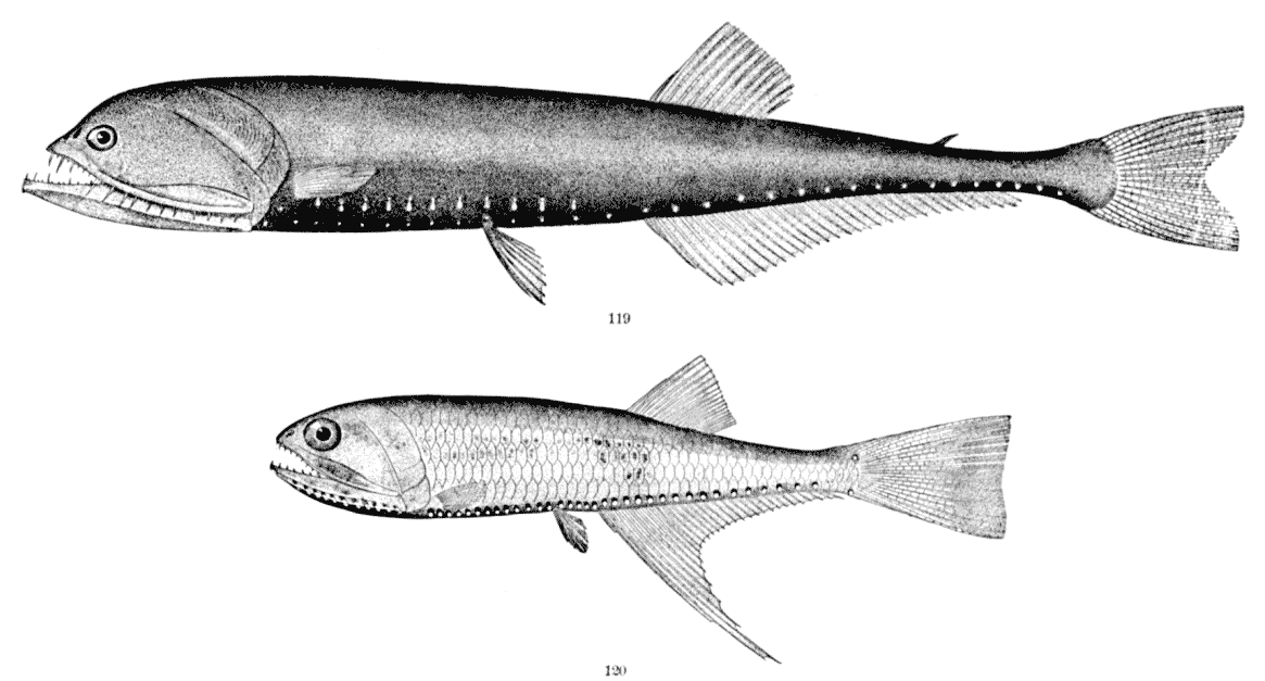 An image of two fish in the family Gonostomatidae: the Elongated bristlemouth, Gonostoma elongatum (top) and Bonapartia pedaliota (bottom). From Oceanic Ichthyology by G. Brown Goode and Tarleton H. Bean, published 1896.